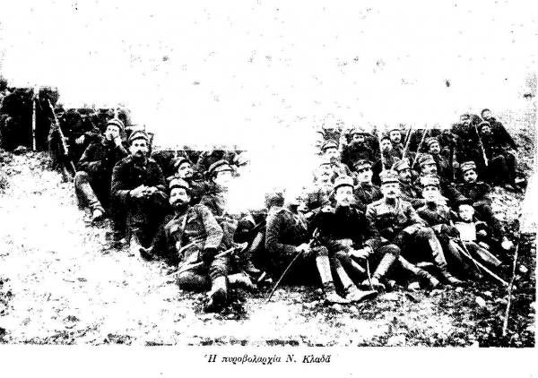 Artilleryman from Greek battery of captain Nikolaos Kladas, West Macedonia, 1912